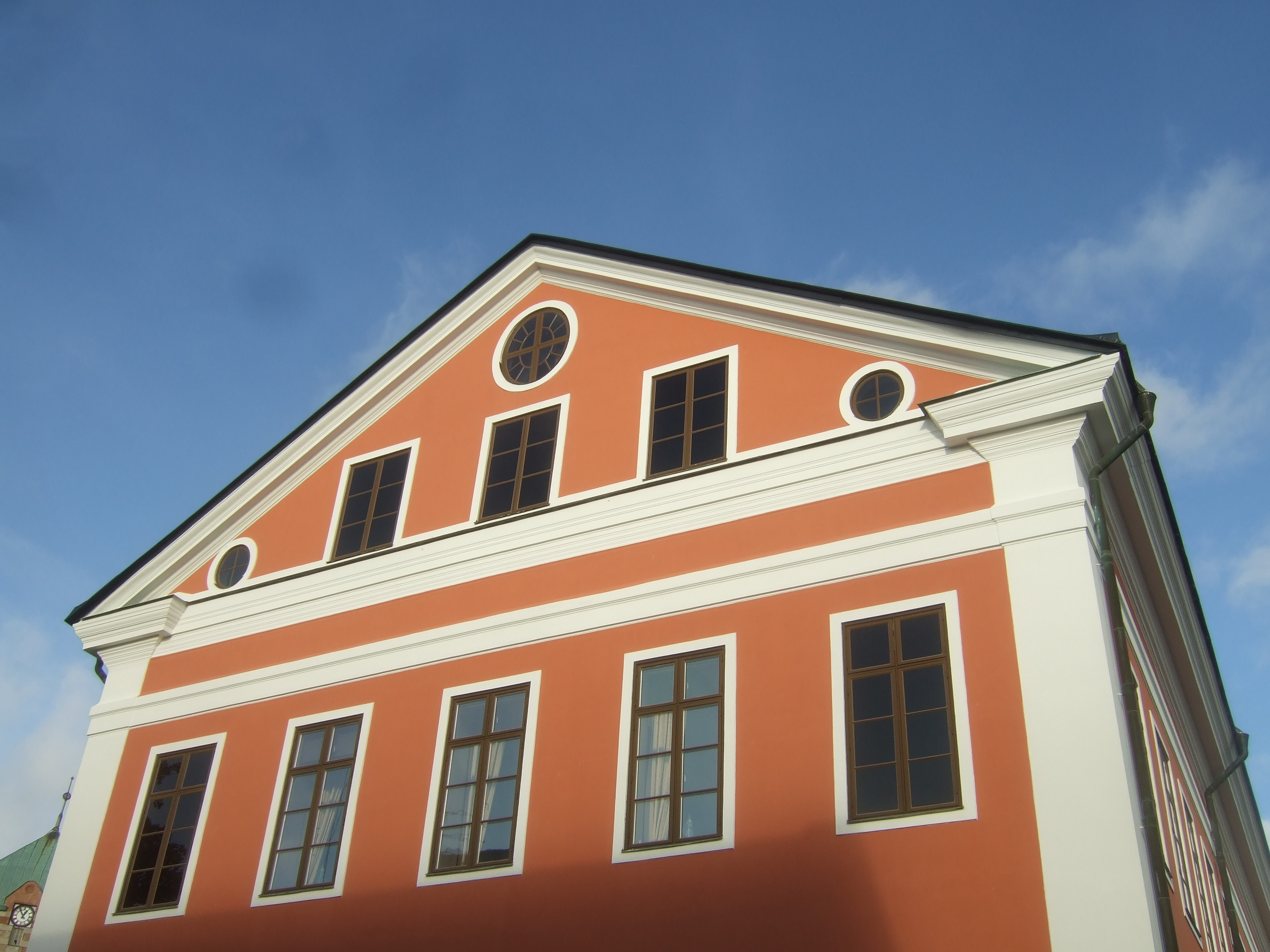 The house of "Härnösands rådhus" at Nybrogatan 8 in Härnösand, upper part of south gable wall with false and real windows